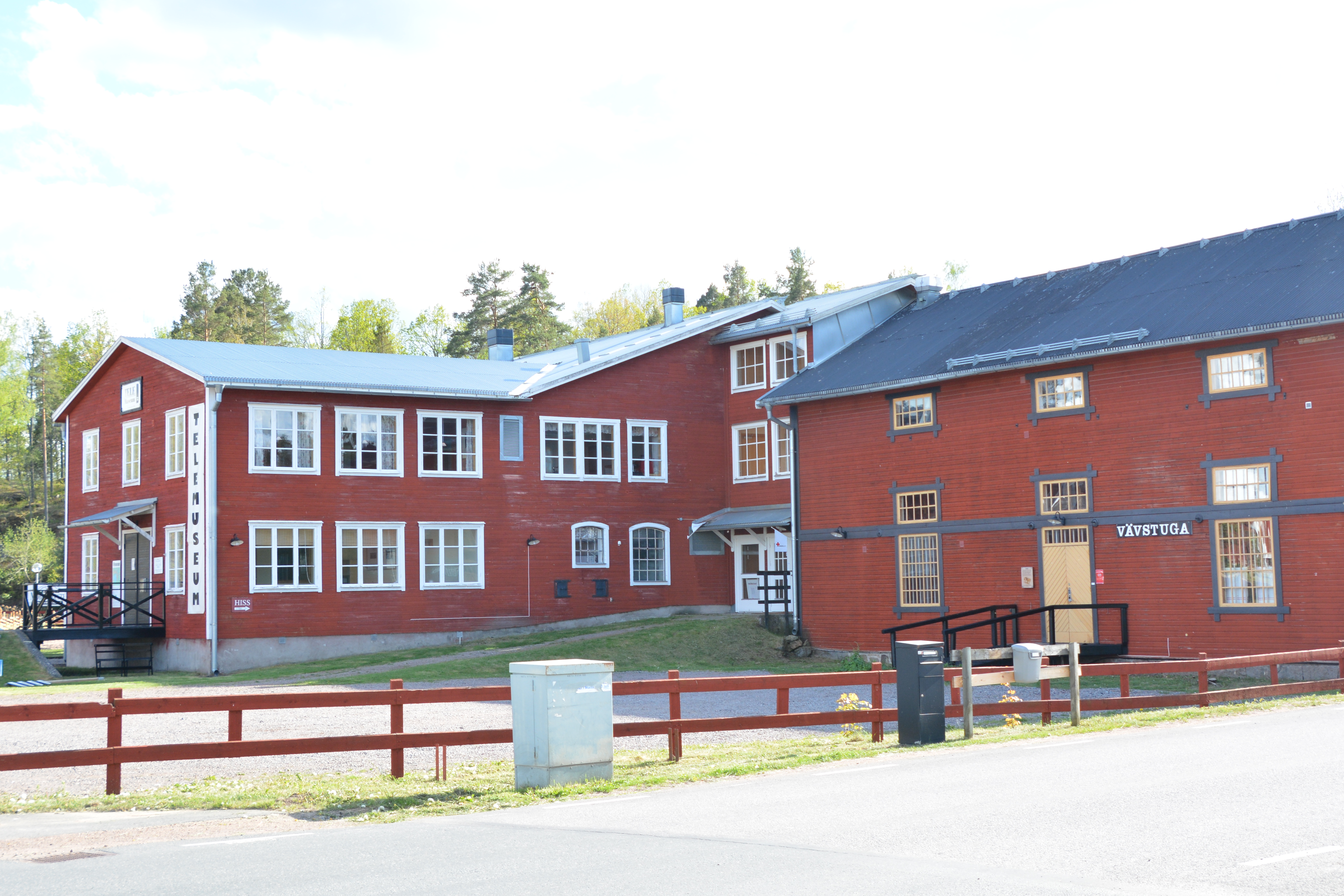 Sveriges Telemuseum, Virserum